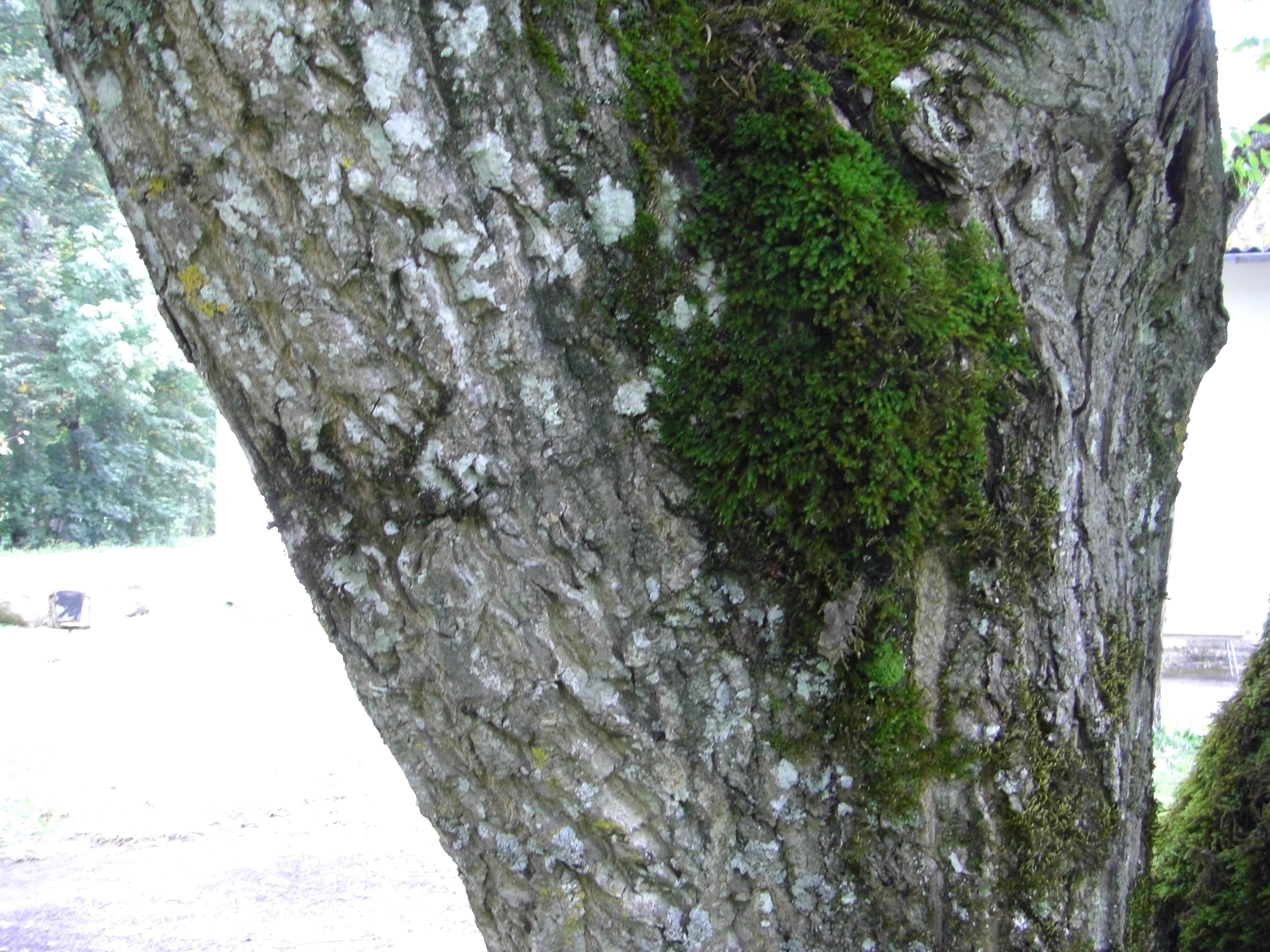 Bark of a mandshurian walnut tree in front of the coach house of Cīrava Palace, Latvia.